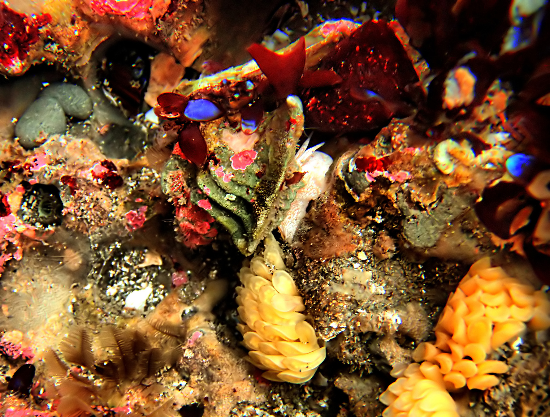 Pteropurpura trialata is laying the eggs; the little whitish blobs inside each one are the eggs